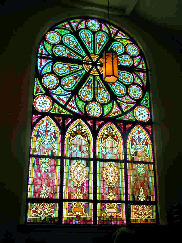 Hartford City's First Presbyterian Church stained glass window on west wall.